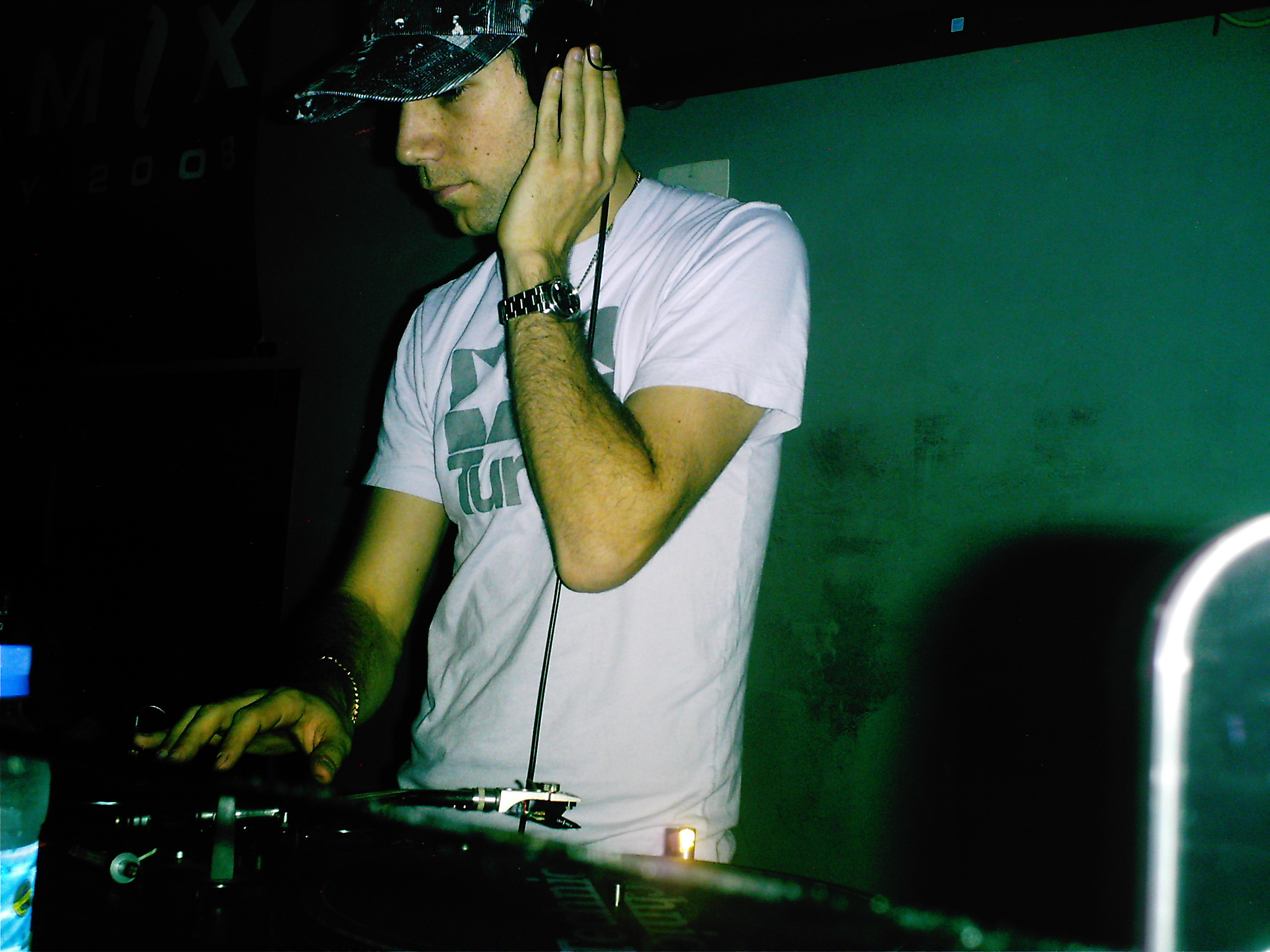 the headlining DJ, Tiga from Canada